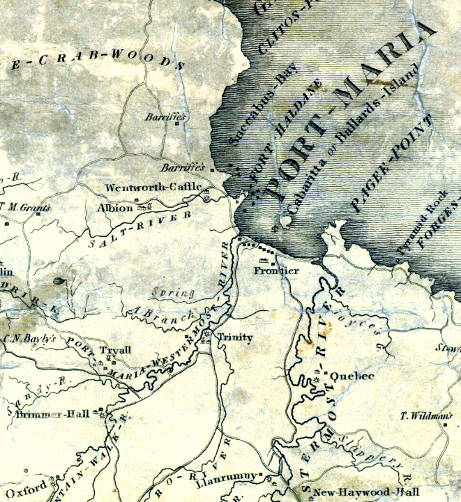 Trinity plantation, Brimmer Hall and other nearby locations on James Robertson's map of 1804